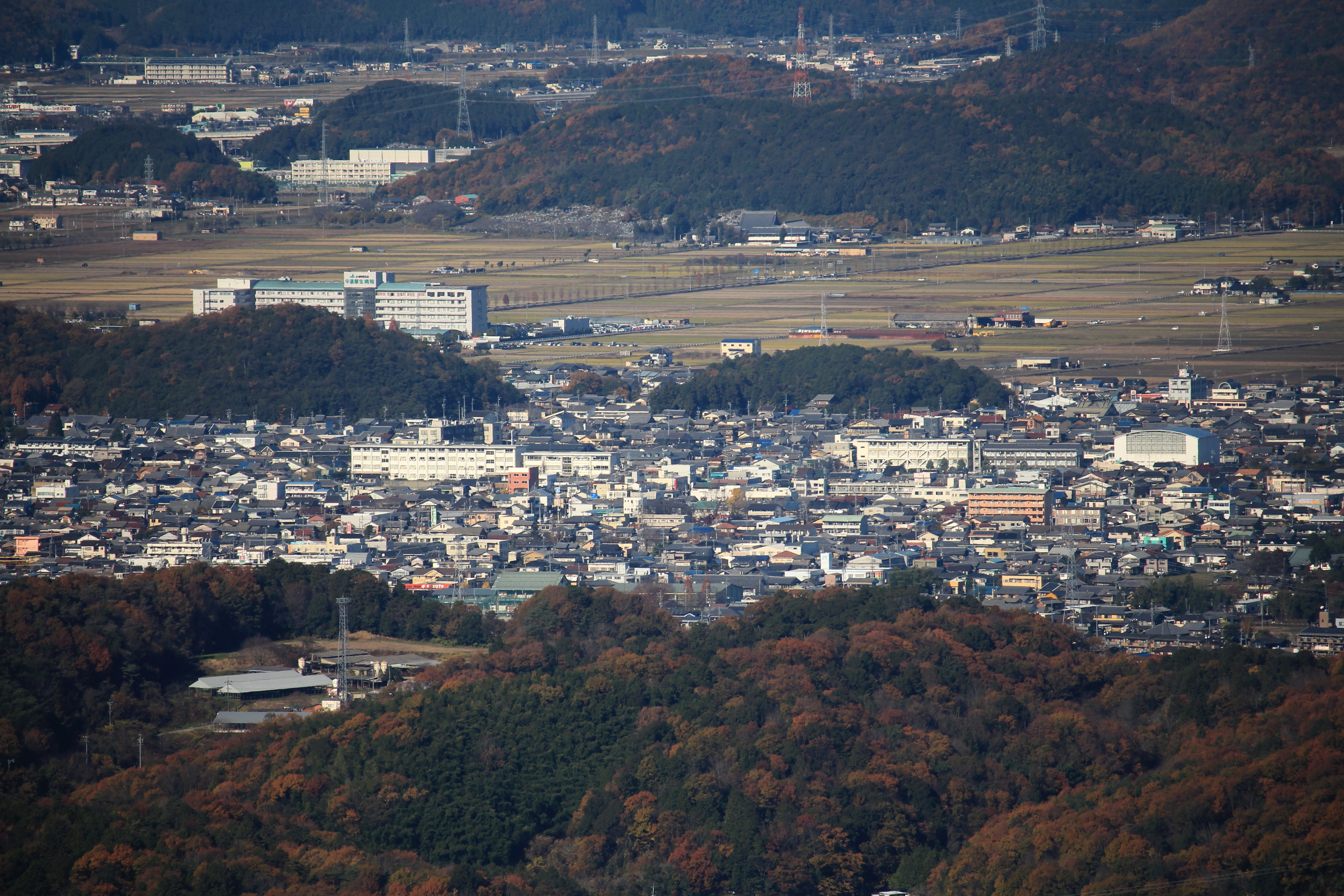 Seki City Asahigaoka Elementary school and Seki City Asahigaoka Junior High School seen from Mount Meio in Seki, Gifu Prefecture, Japan.